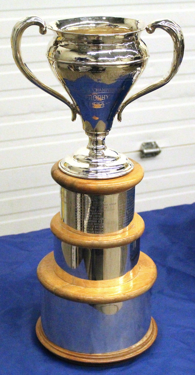 These images of the Sutherland Cup during the 2014-15 season are taken by Devan Mighton.